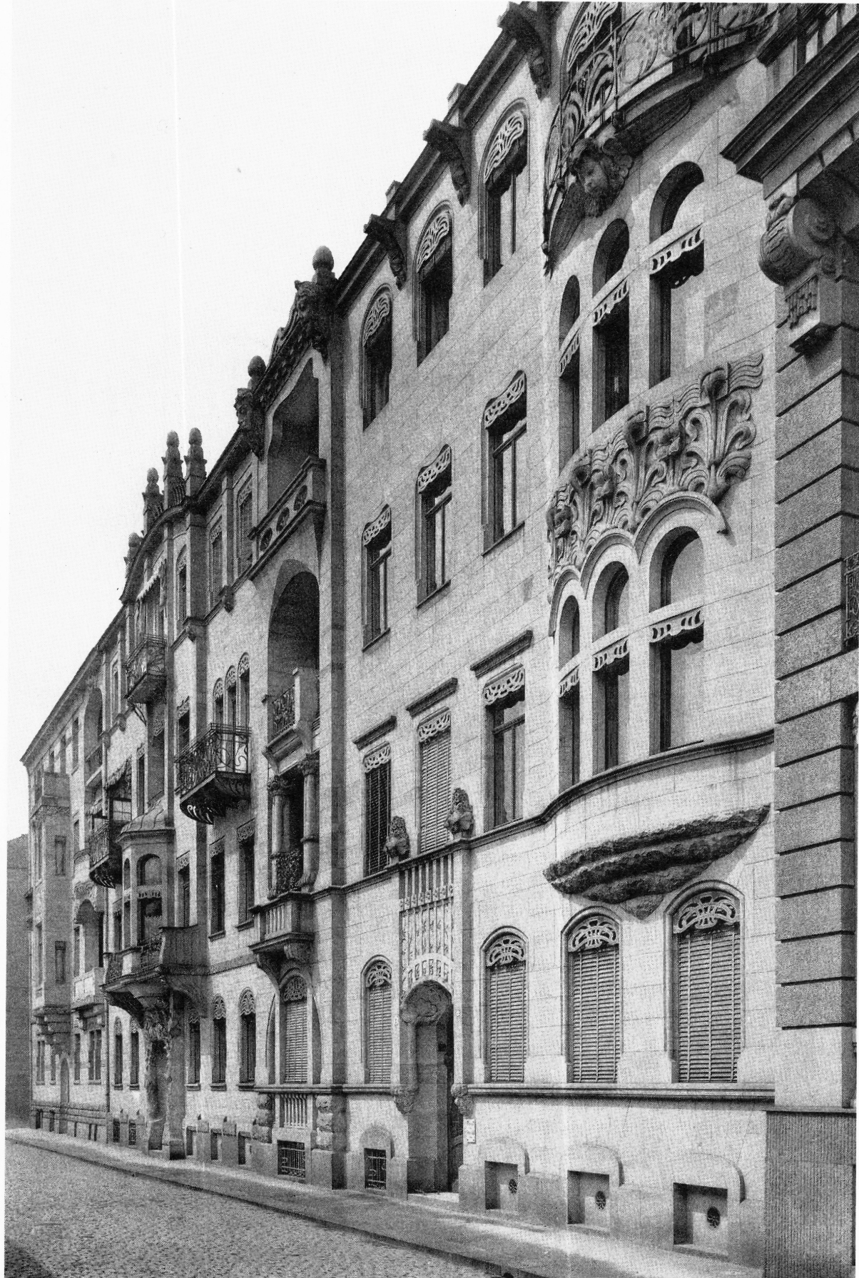 destroyed house